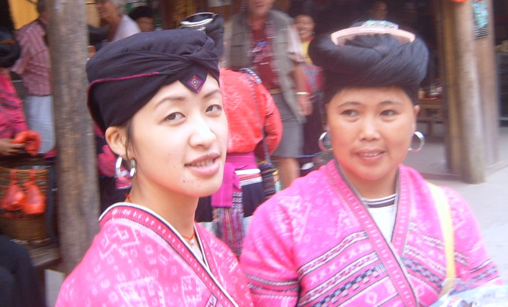 Yao (peuple) women